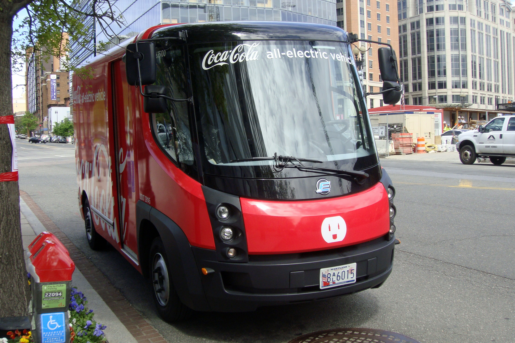 Coca Cola delivery Navistar eStar all-electric van at Washington D.C.